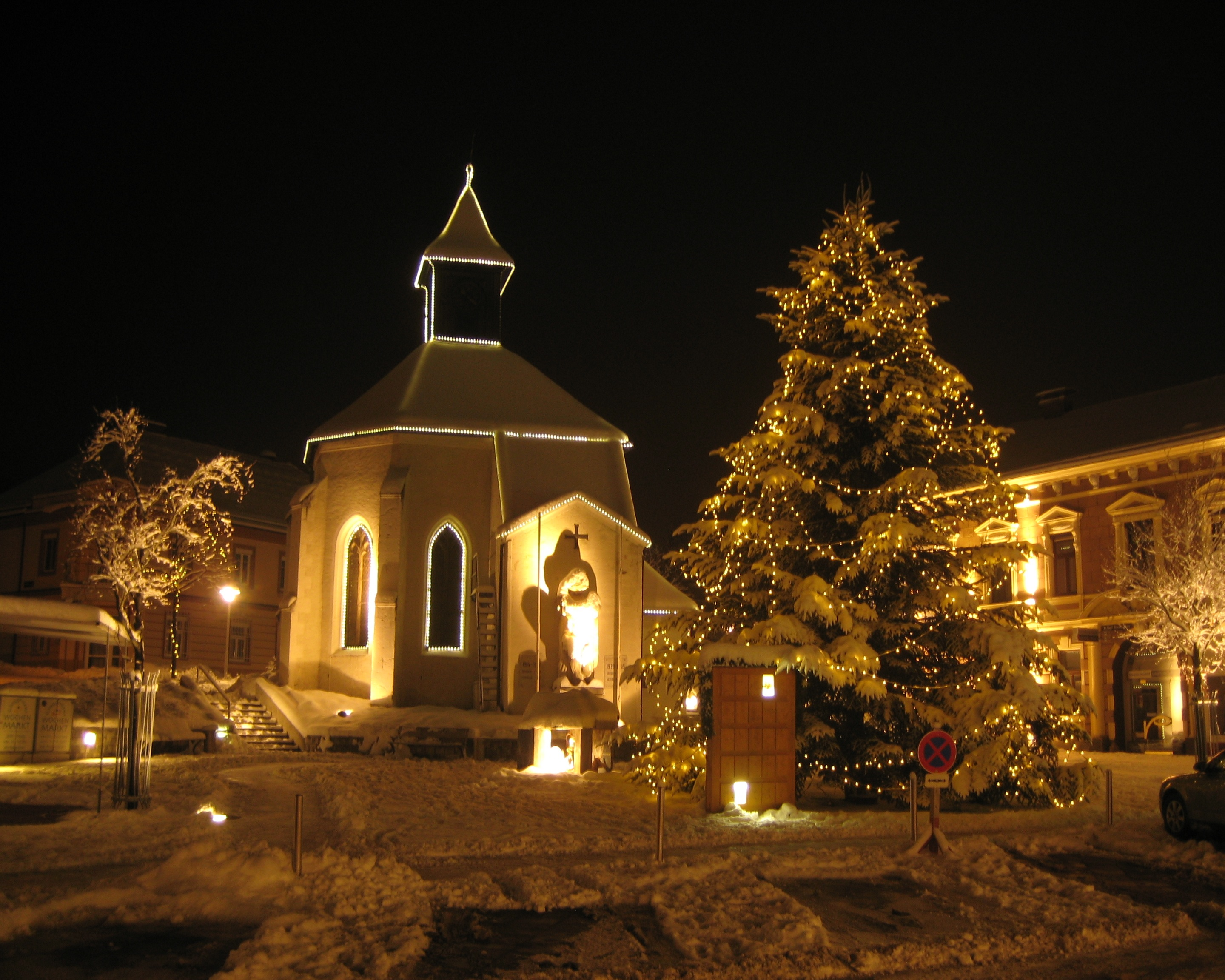 Mainsquare of Gloggnitz in the advent with christmas tree